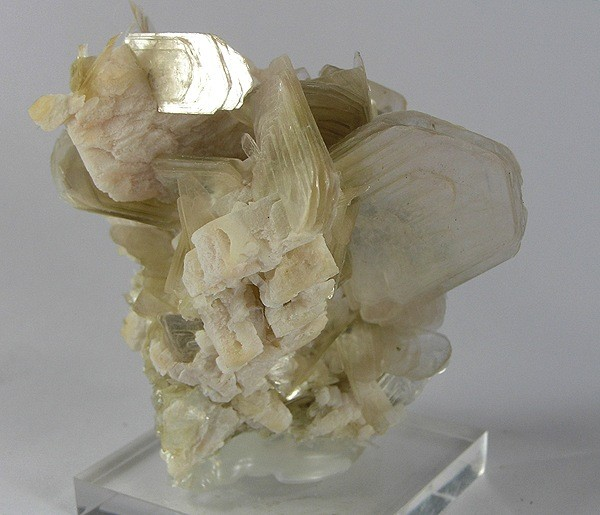 Muscovite, Albite (Var.: Cleavelandite) Locality: Divino das Laranjeiras, Doce valley, Minas Gerais, Southeast Region, Brazil (Locality at ) Size: 6 x 5.3 x 3.9 cm. Muscovite is almost always seen as an "accessory" mineral - except on rare occasions, as with this gorgeous specimen. The bladed crystals are bright pearly silver, in a complex intergrowth, with euhedral cleavelandites playing the role of accents on this specimen. Ex. Feist Collection.